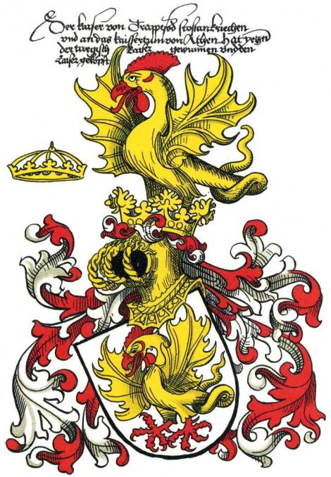 Eight years after the fall of Constantinople the 21st Comnenus, David, surrendered the city to the Ottoman Sultan Muhammad II on 15 August 1461. Some parts however still resisted until 1478 and the interior was difficult to submit. From this time a peculiar coat of arms is given by Conrad Grüneberg:The legend reads: „Der kaiser von Trappesod stost an Kriechen vnd an das Kaisertum von Athen. Hat yetzn der turgisch kaiser gewunnen und den kaiser geköpft”.